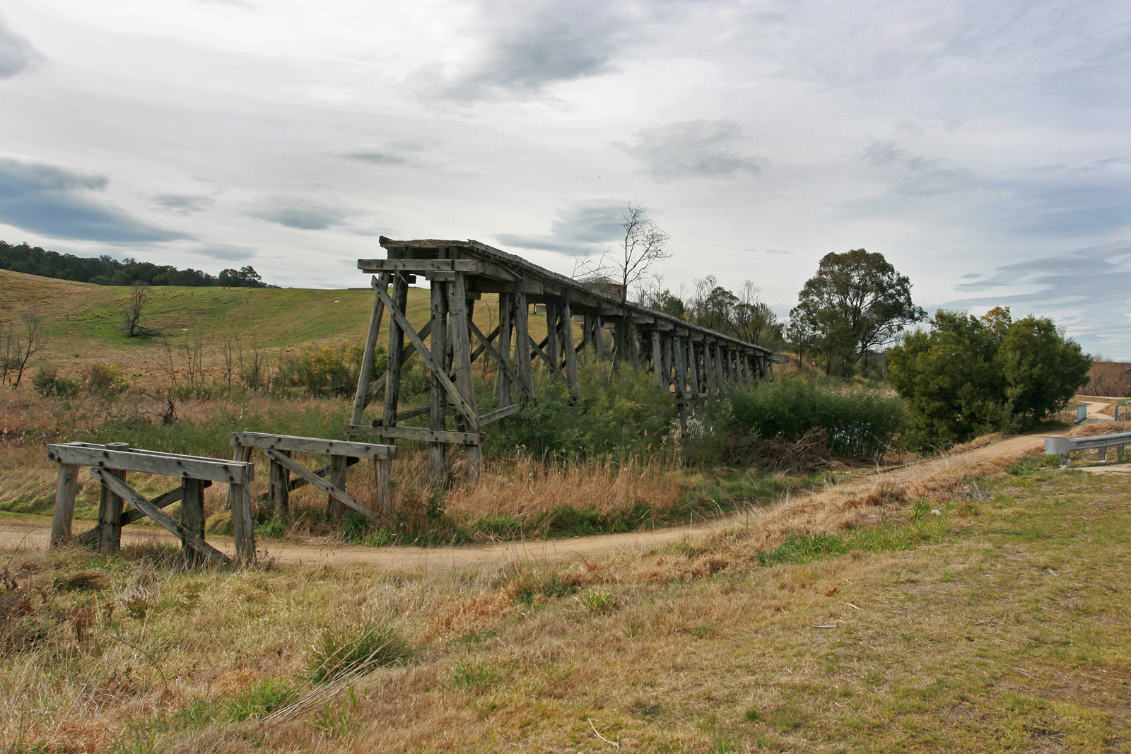 East Gippsland Rail Trail, looking east approx. 2km west of Bruthen alongside the Great Alpine Rd. Note the trail passing through and beside the former railway trestle bridge.